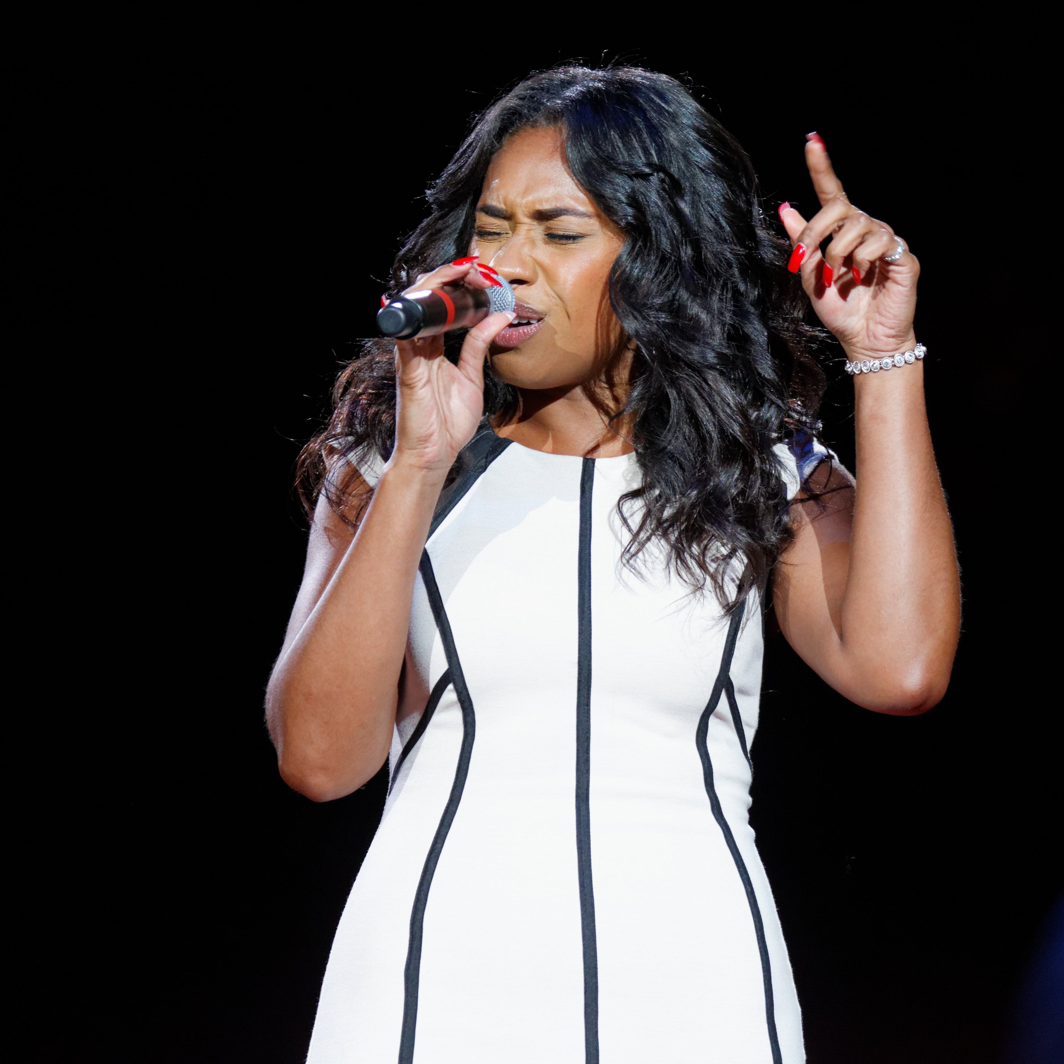 Championnats du monde de tennis de table, Paris. La chanteuse australienne Paulini Curuenavuli